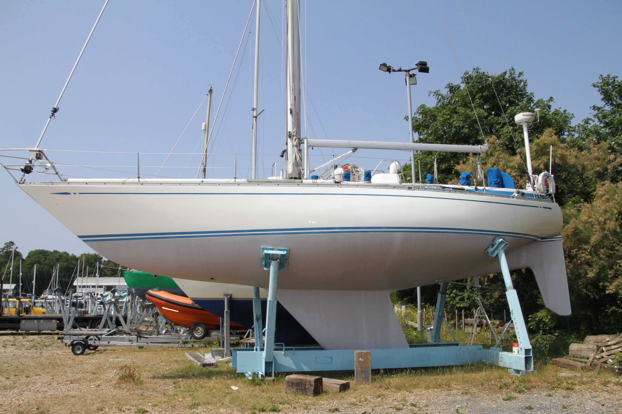 Swan 411 Hull Shape